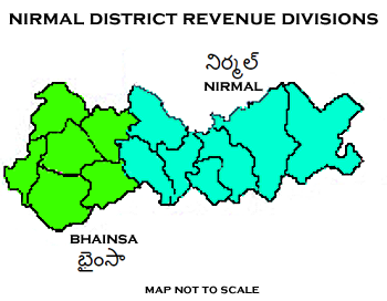 Nirmal District Revenue divisons